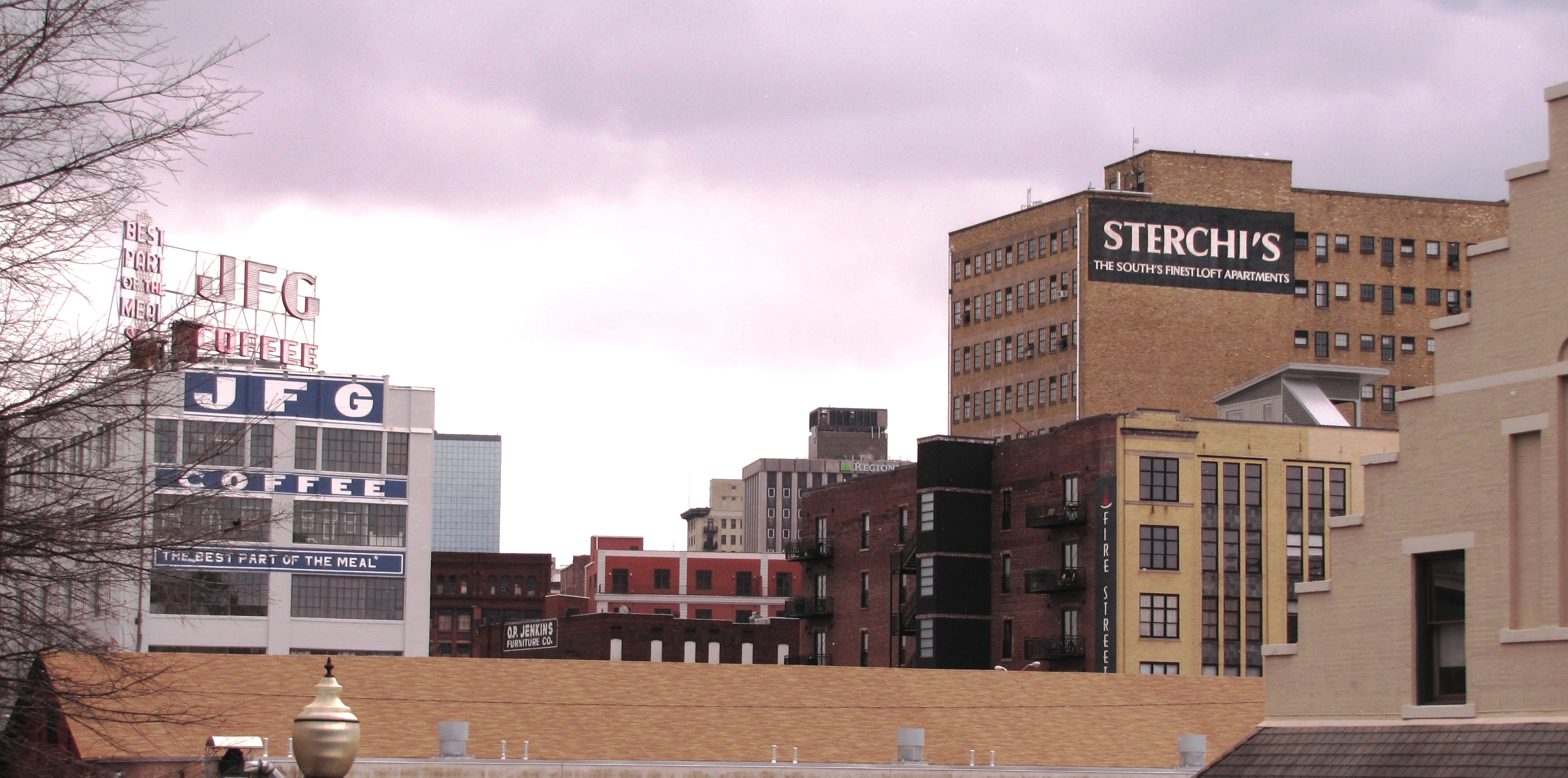 The Jackson Avenue skyline in Knoxville, Tennessee, USA, viewed from the Southern Terminal.